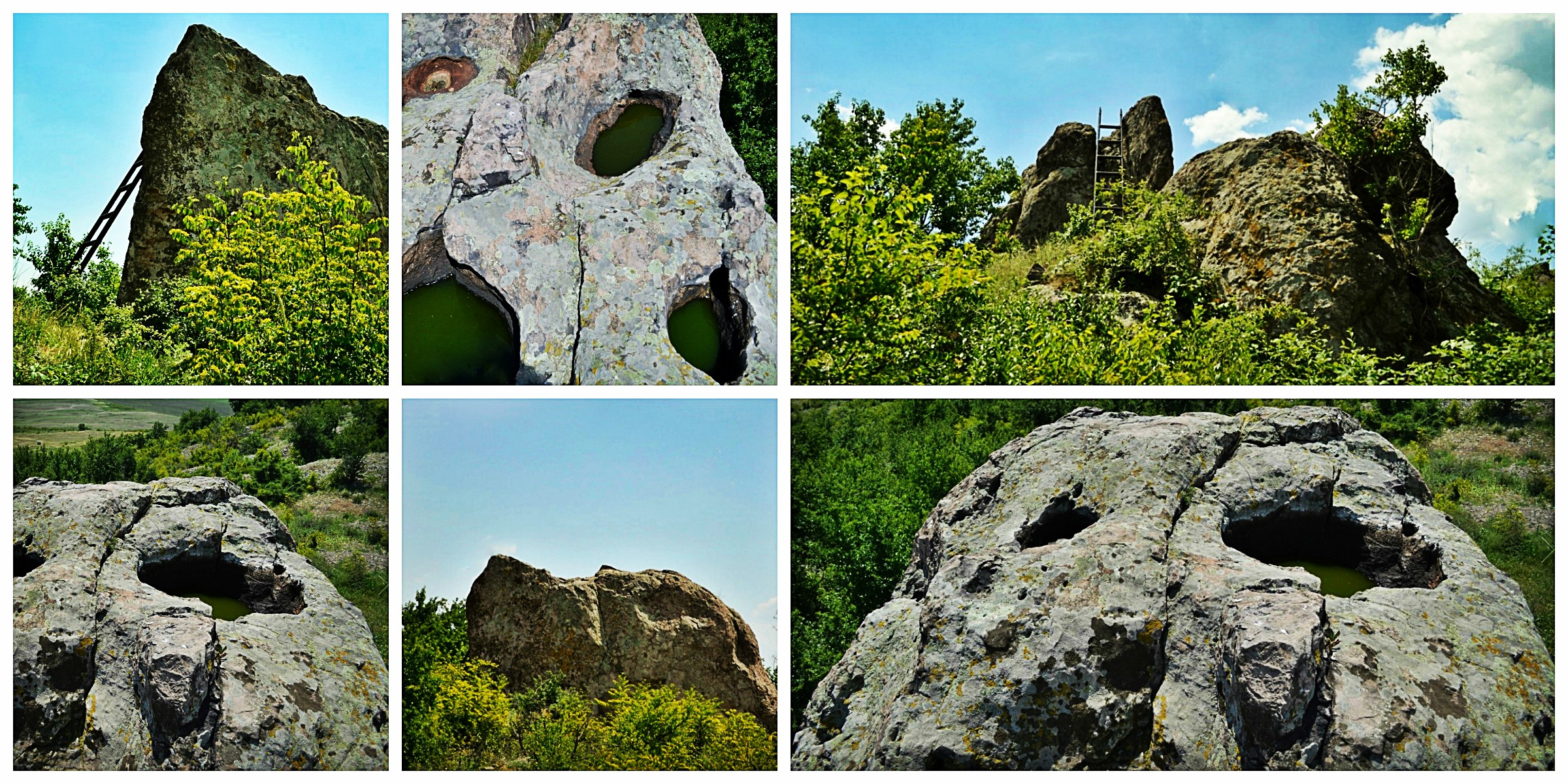 Stalevo Markov Stone BG